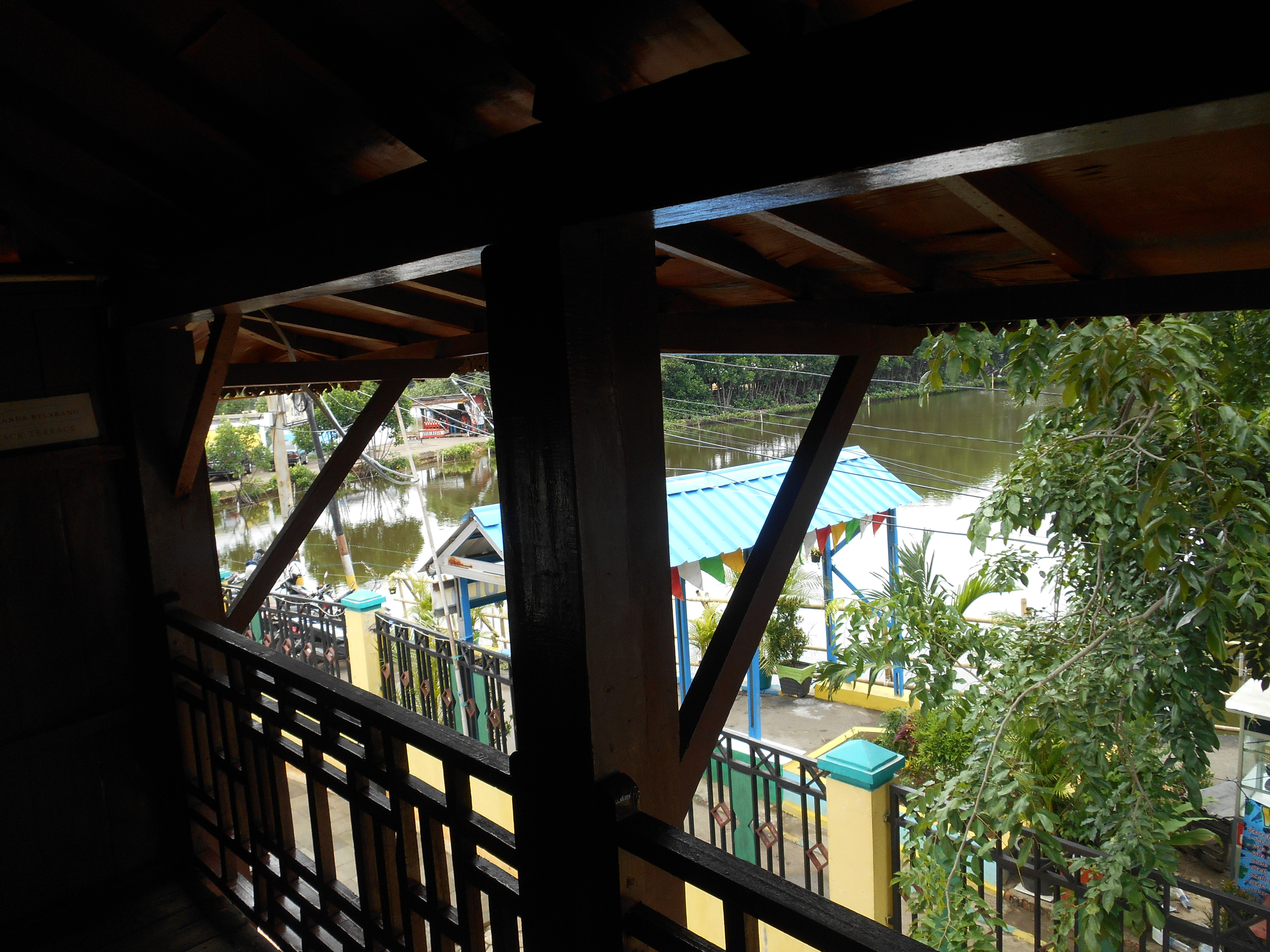 Bagian belakang (dapur) Rumah si Pitung Marunda